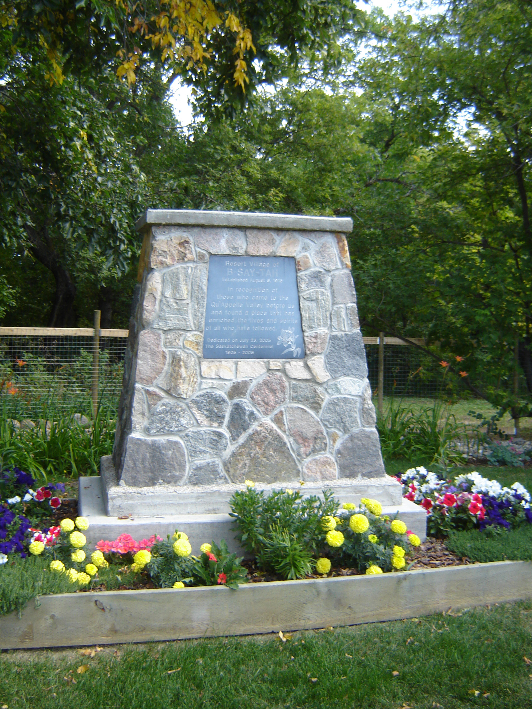 B-Say-Tah Established August 6, 1916. In recognition of those who came to the Qu'Appelle Valley before us and found a place that has enriched the lives and spirits of all who have followed. Dedicated on July 23, 2005 The Saskatchewan Centennial 1905-2005